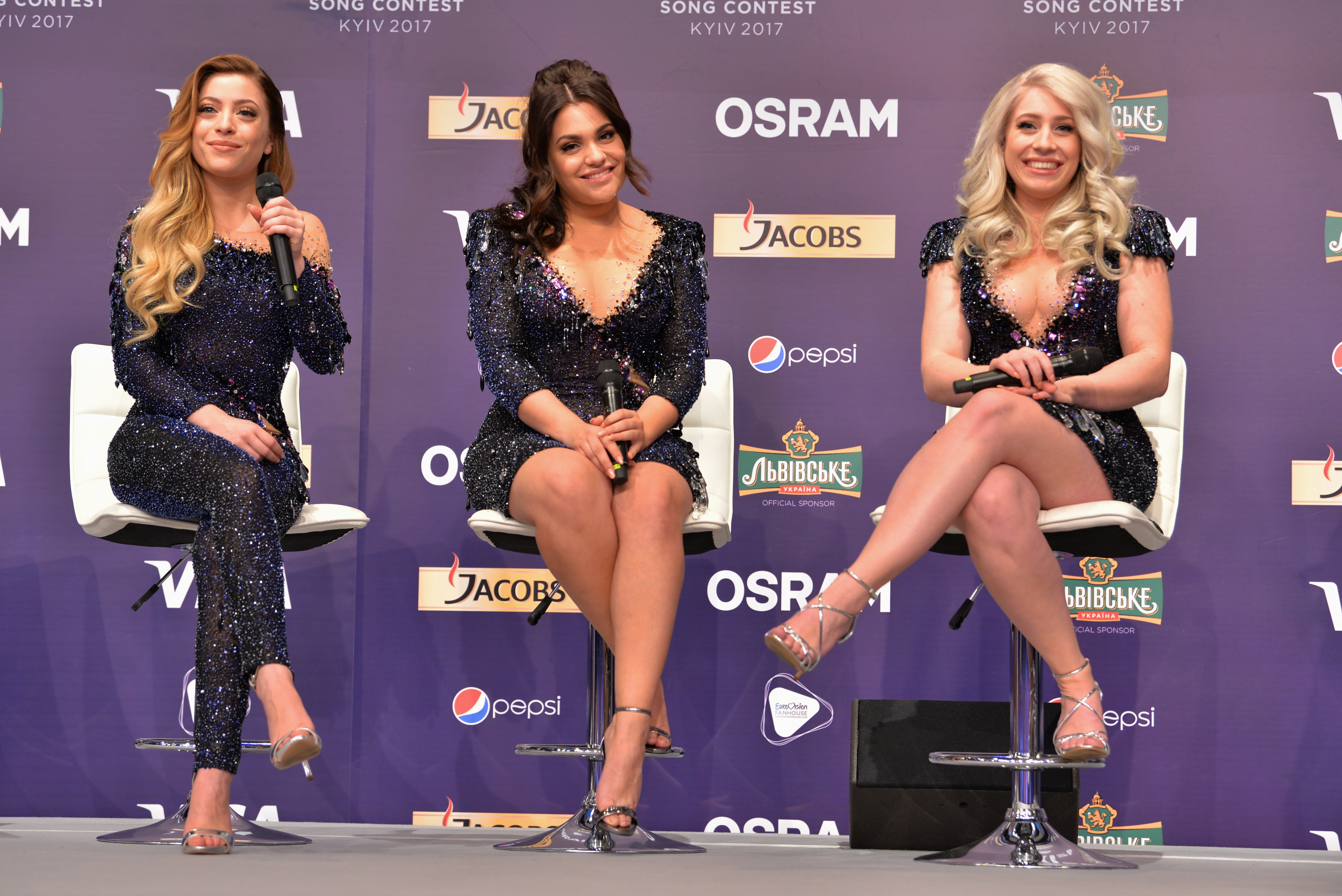 Dutch group O'G3NE in Kyiv 2017